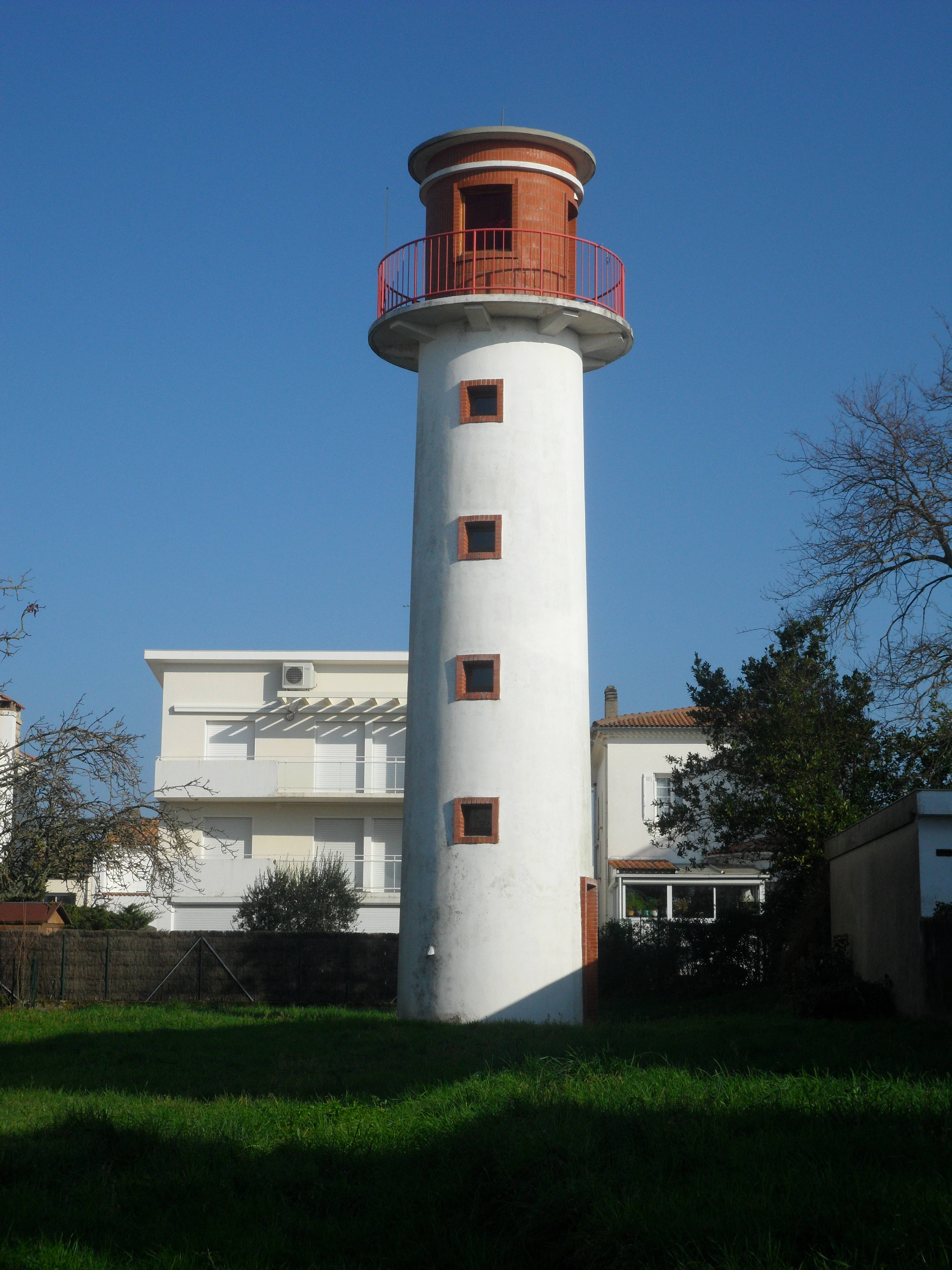 Le phare du Chay à Royan